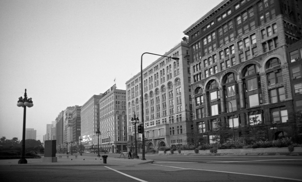 Michigan Avenue photograph by Serhii Chrucky, 2005, Chicago, Illinois.